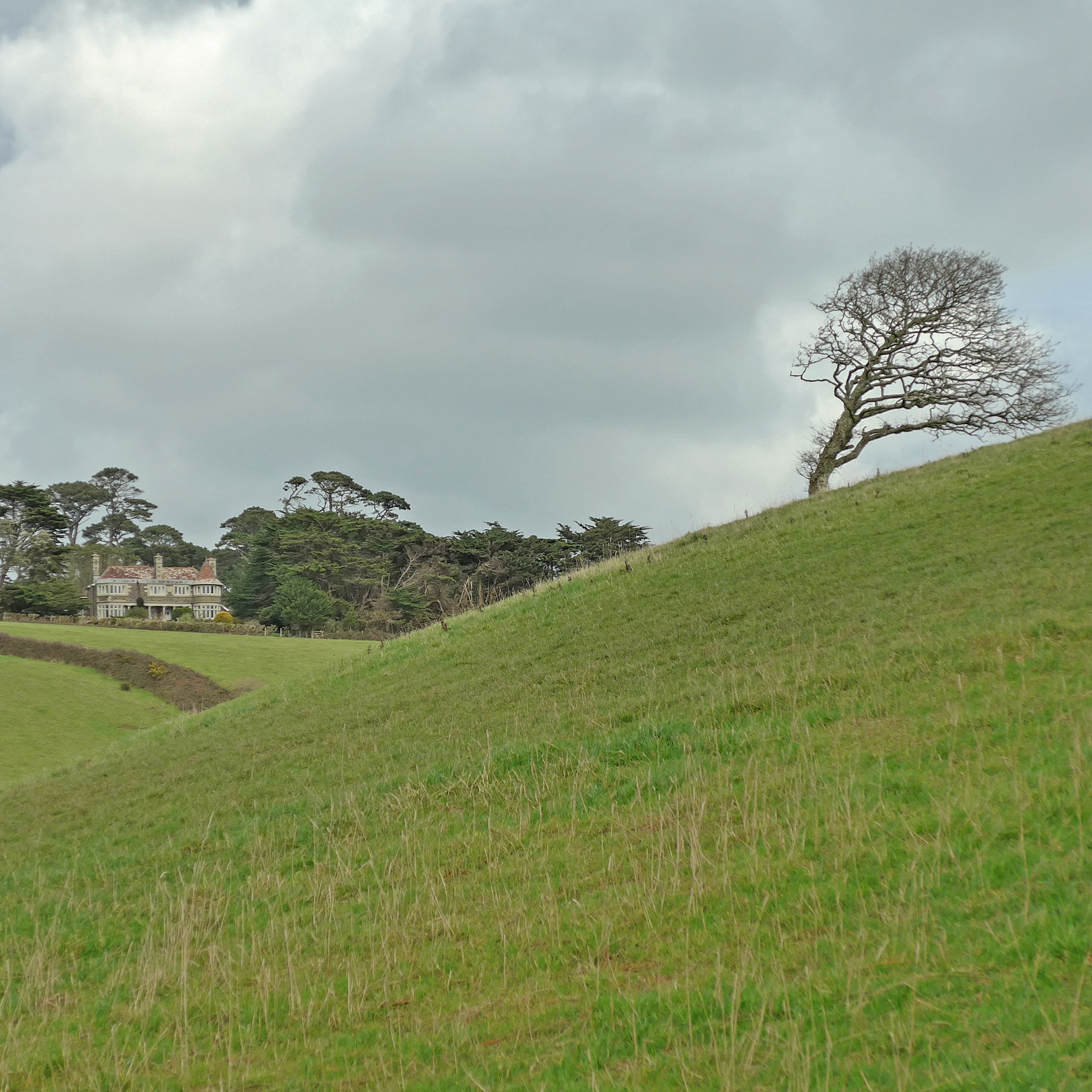 Mawnan, near Falmouth